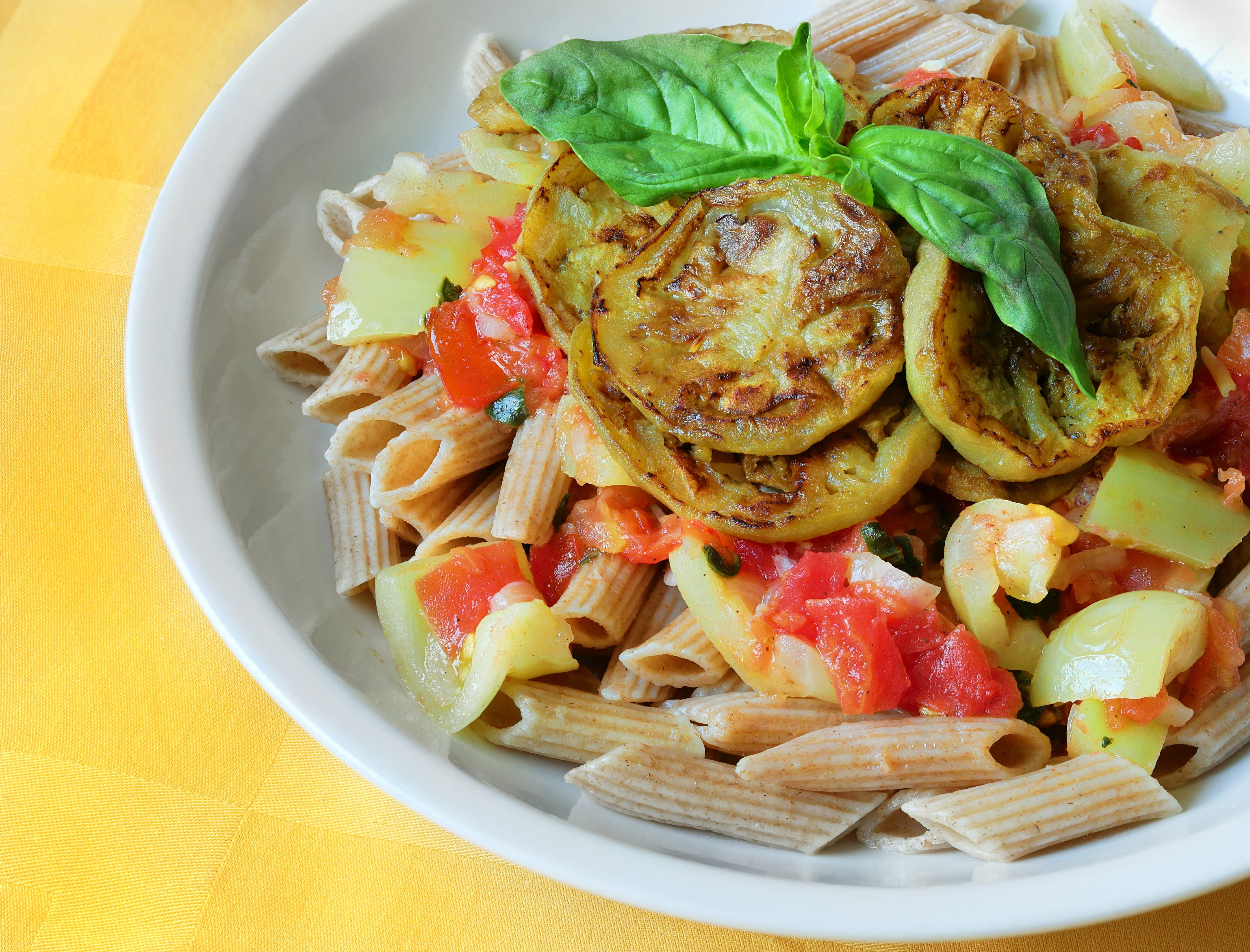 Diet food: Penne with eggplant in yogurt-tomato sauce and basil. Dish is a part of cookbook for womens with Gestational diabetes. Cookbook written by Ana Žontar Kristanc, ISBN 978-961-93983-2-6 This photograph was taken with a Panasonic Lumix DMC-G85/G80